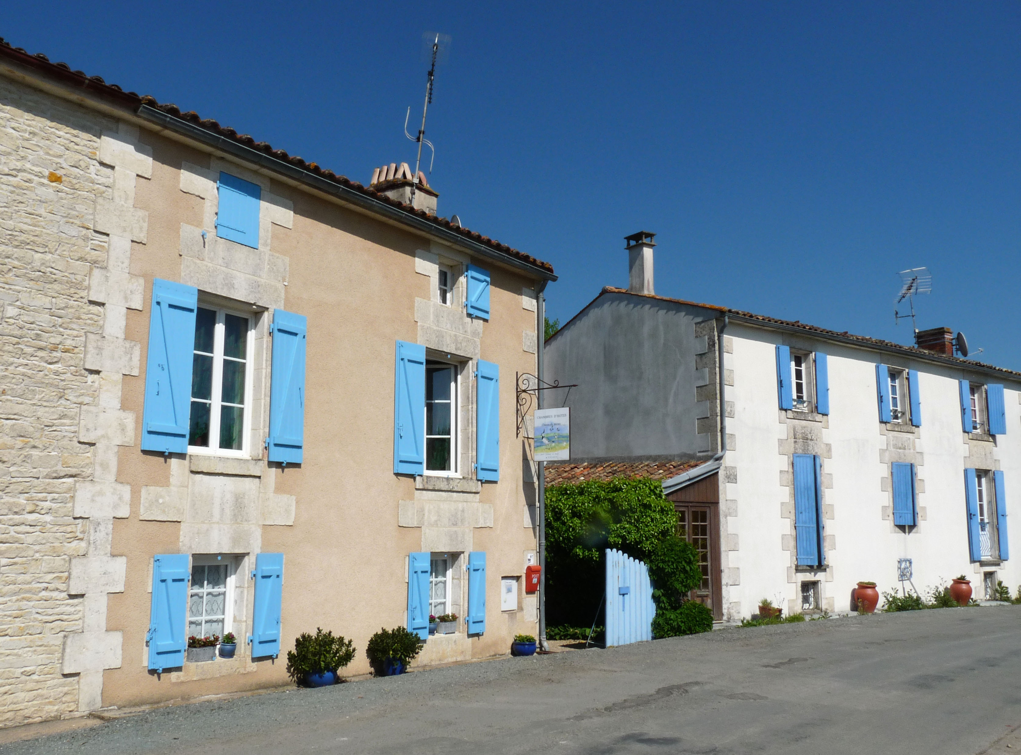 Typical houses in Le Vanneau (Deux-Sèvres)